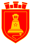 Coat of arms of Muglizh, Bulgaria